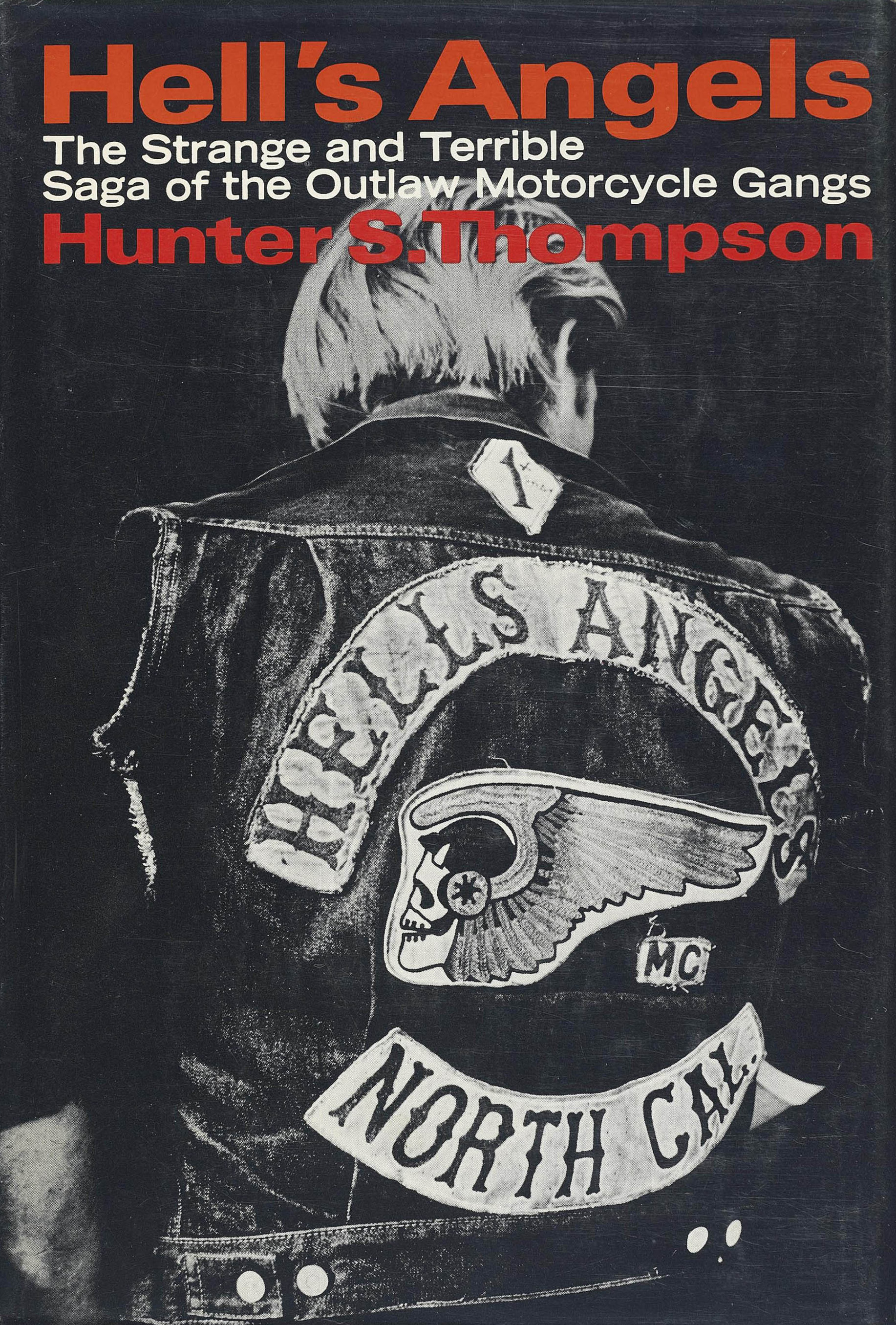 First edition dust jacket cover of gonzo journalist Hunter S. Thompson's 1967 book Hell's Angels: The Strange and Terrible Saga of the Outlaw Motorcycle Gangs.